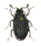 Dermestes frischi, from Calwer's Käferbuch, Table 16, Picture 2. Taxonomy was updated to 2008, using mostly the sites Fauna Europaea and BioLib. Please contact Sarefo if the determination is wrong!